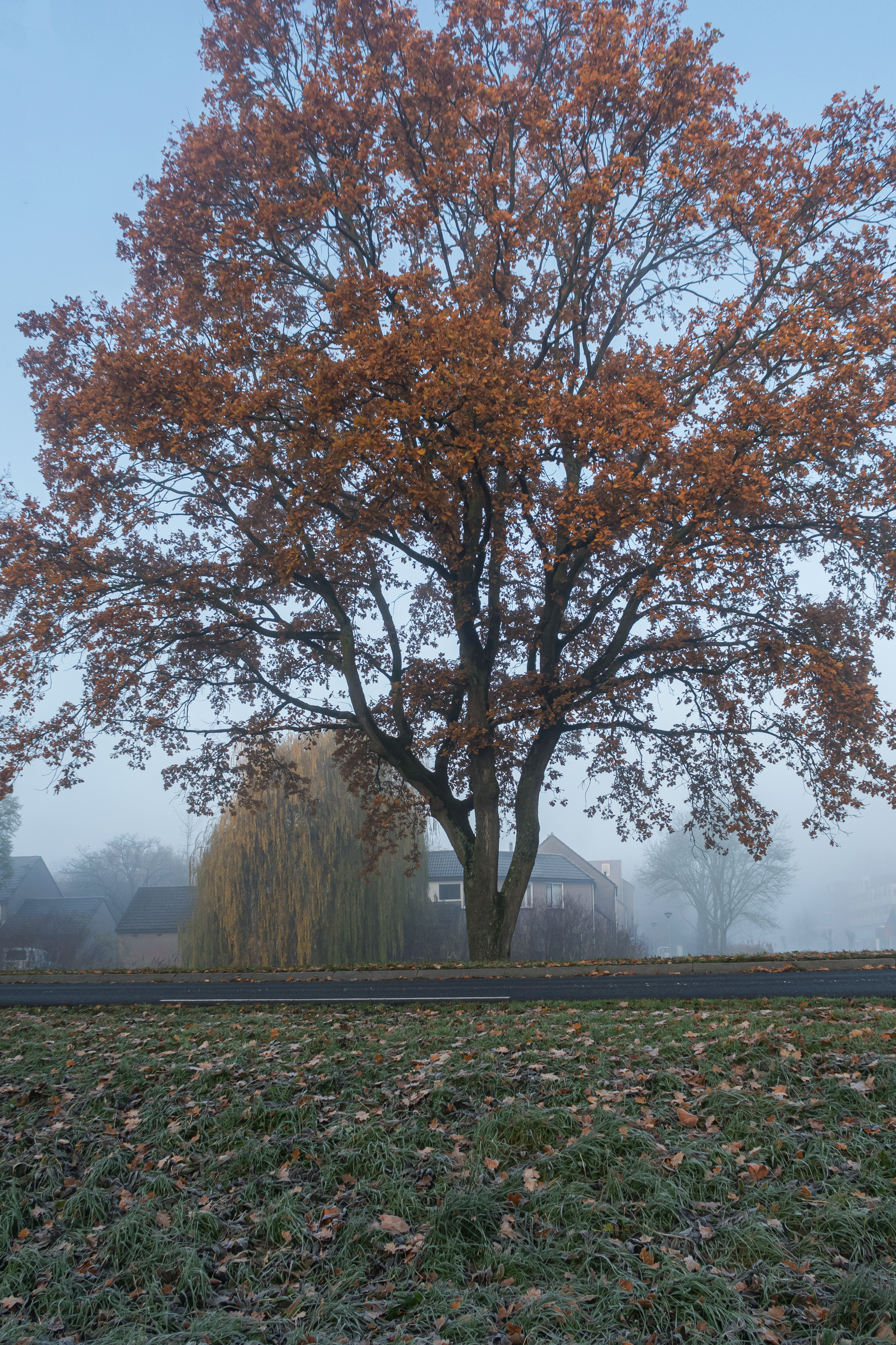 Arnhem-De Laar, tree at the Randweg in the autumn